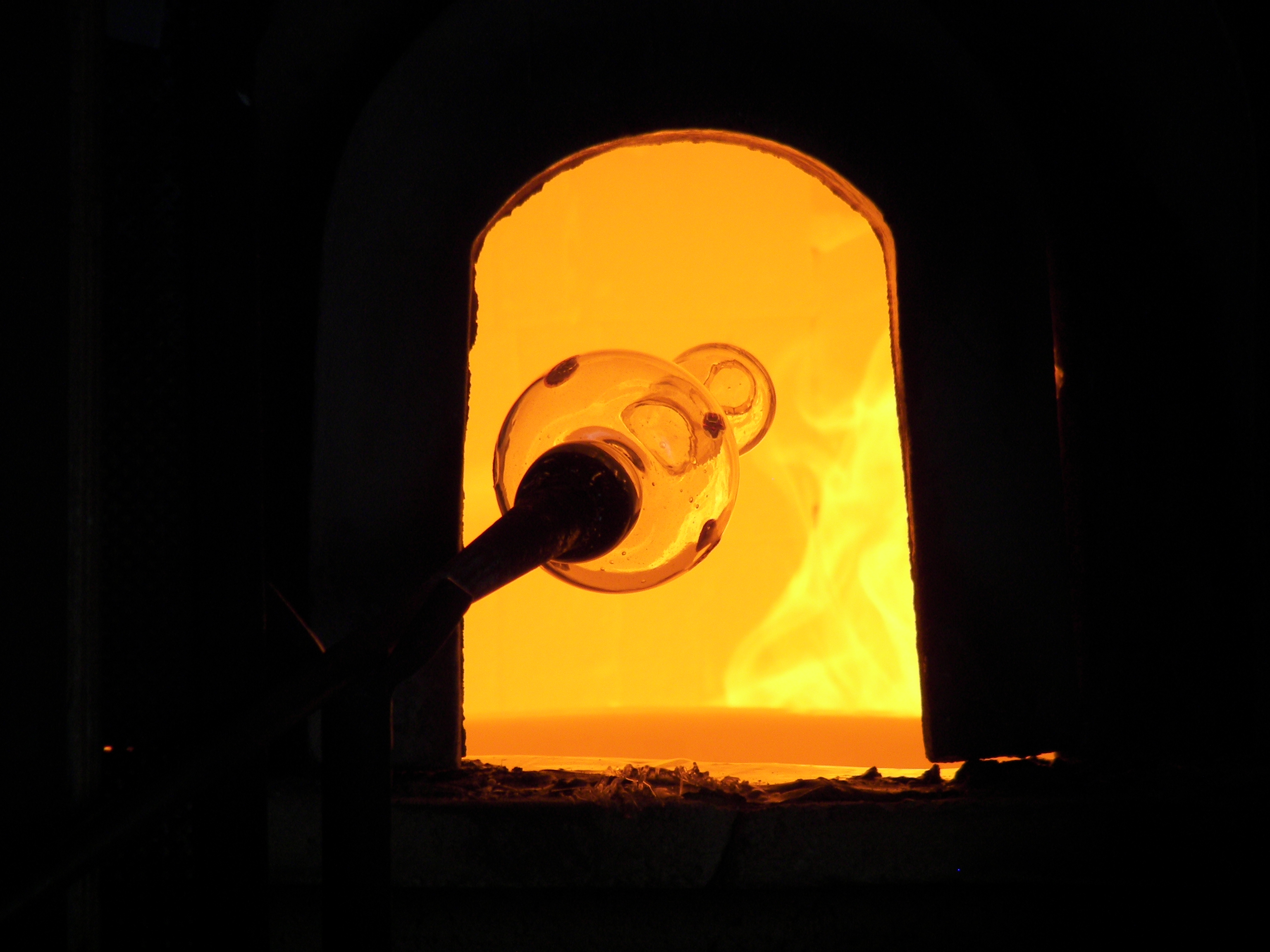 Glass bottle in a furnace for making glass during demonstration at a Murano glass factory in Venezia.